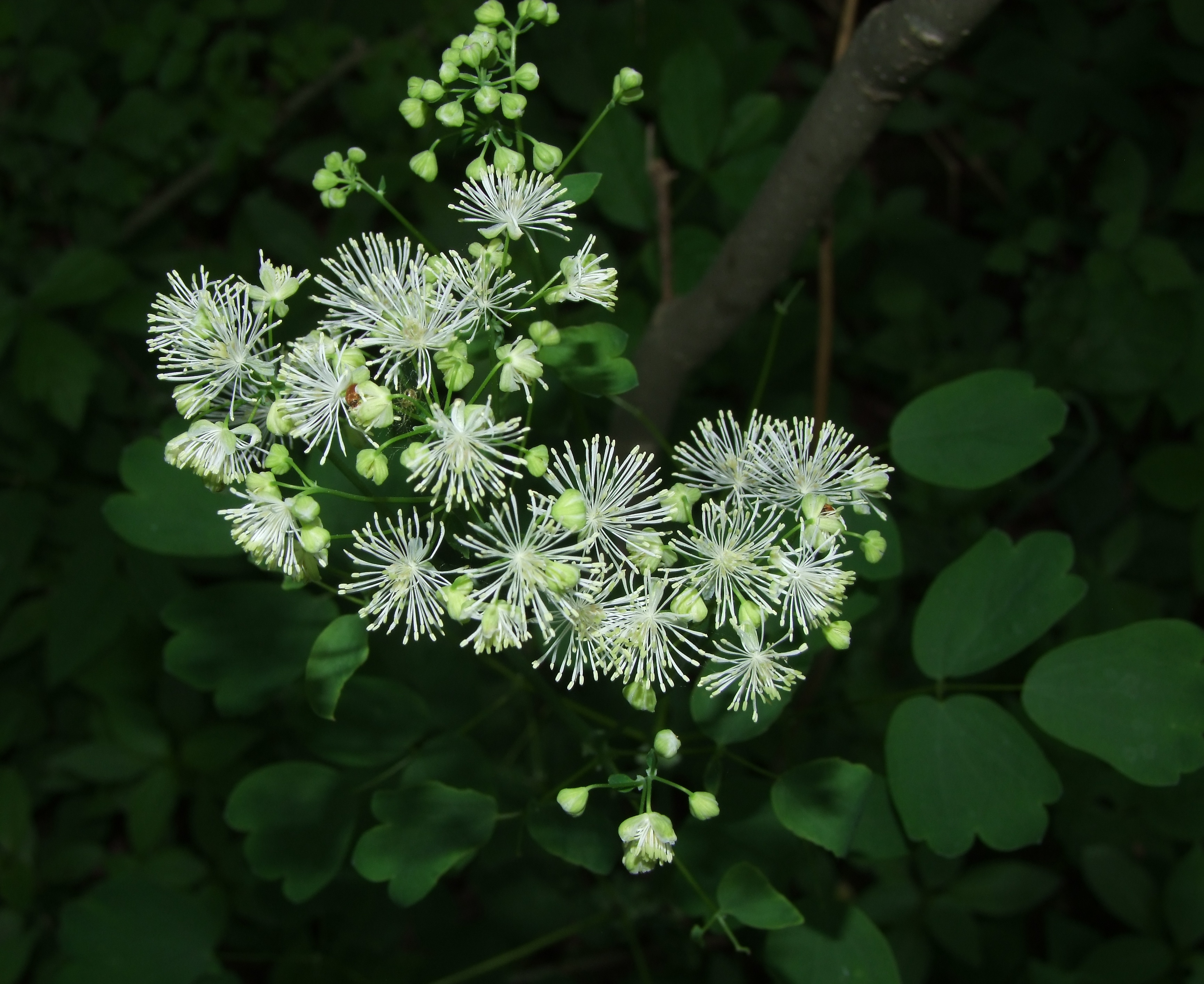 inflorescence of Thalictrum aquilegifolium taken in Germany, Bavaria, Munich, Obere Isarau, c. 150 m NNE of Isar bridge Unterföhring forest, shady